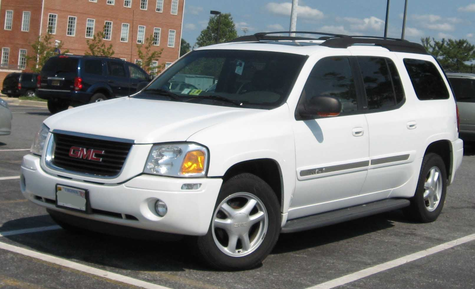 GMC Envoy photographed in College Park, Maryland, USA.